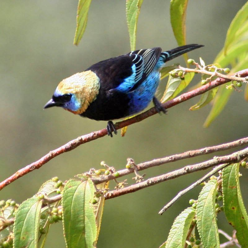 Golden-hooded Tanager Tangara larvata, in Costa Rica